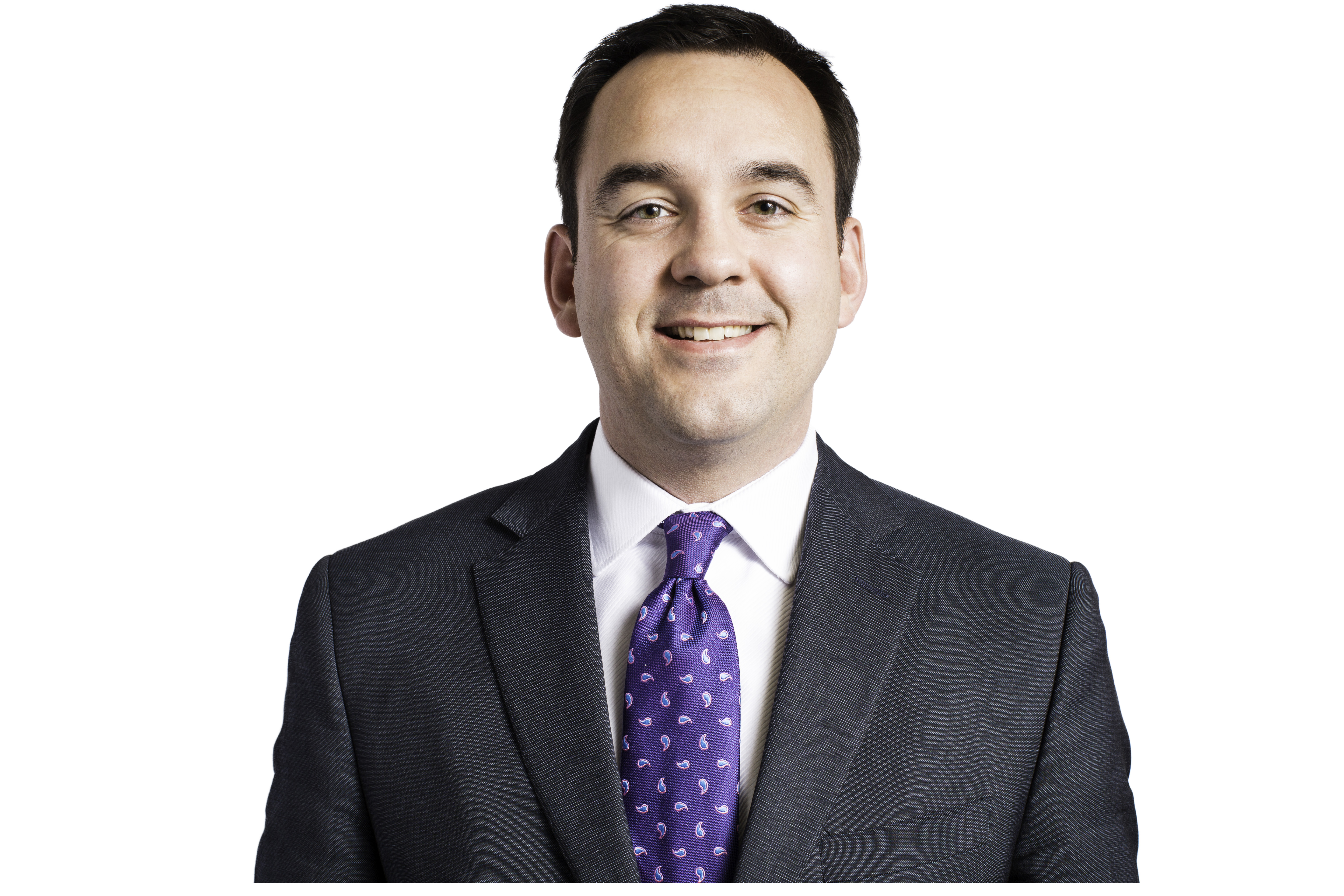 Authorized stock photo, my own work, taken in Airdrie AB